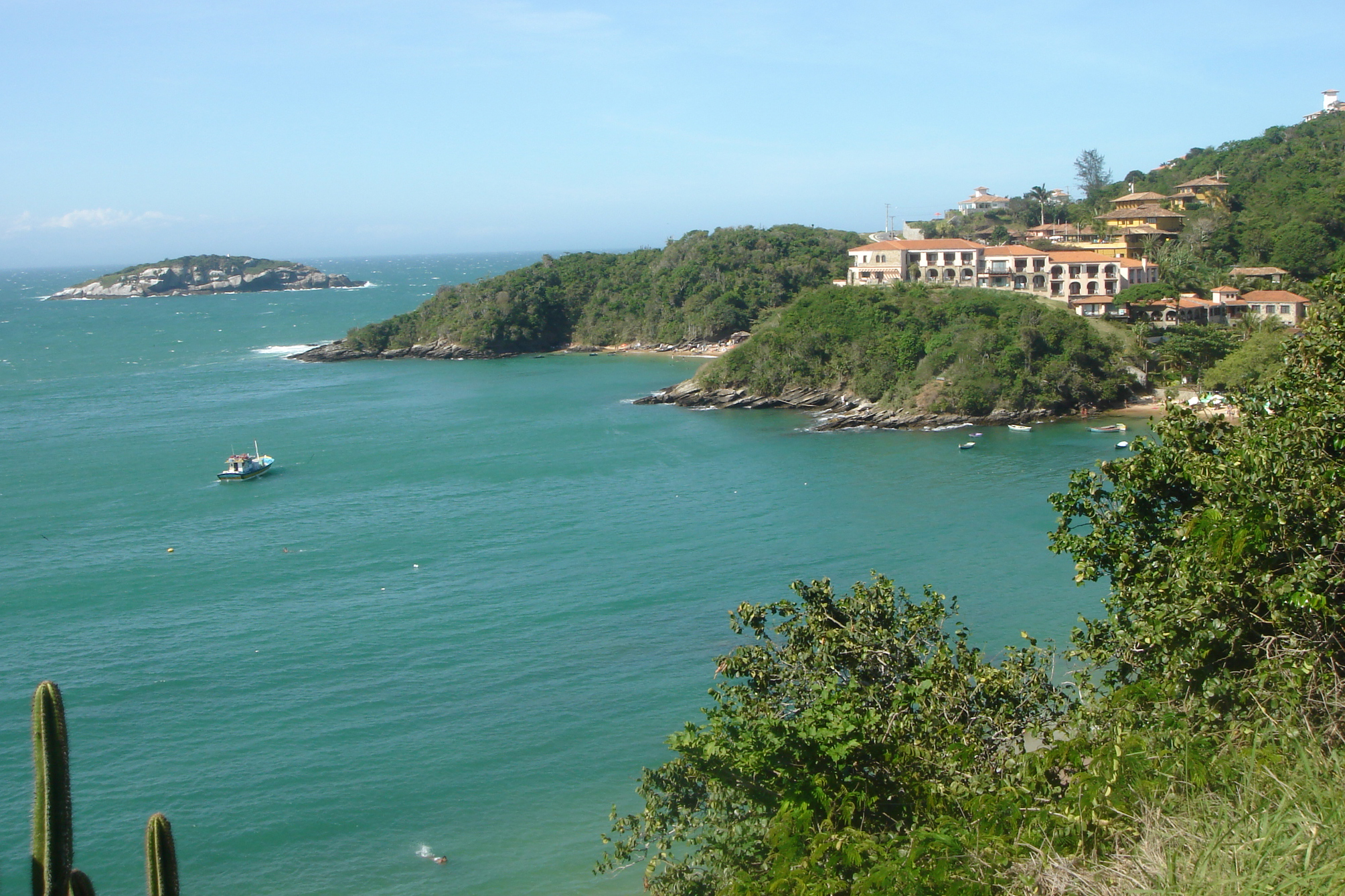 Prais João Fernandinho at Armação dos Búzios, Rio de Janeiro, Brazil